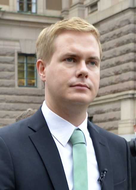 Gustav Fridolin as newly appointed minister in Stockholm October 3, 2014.